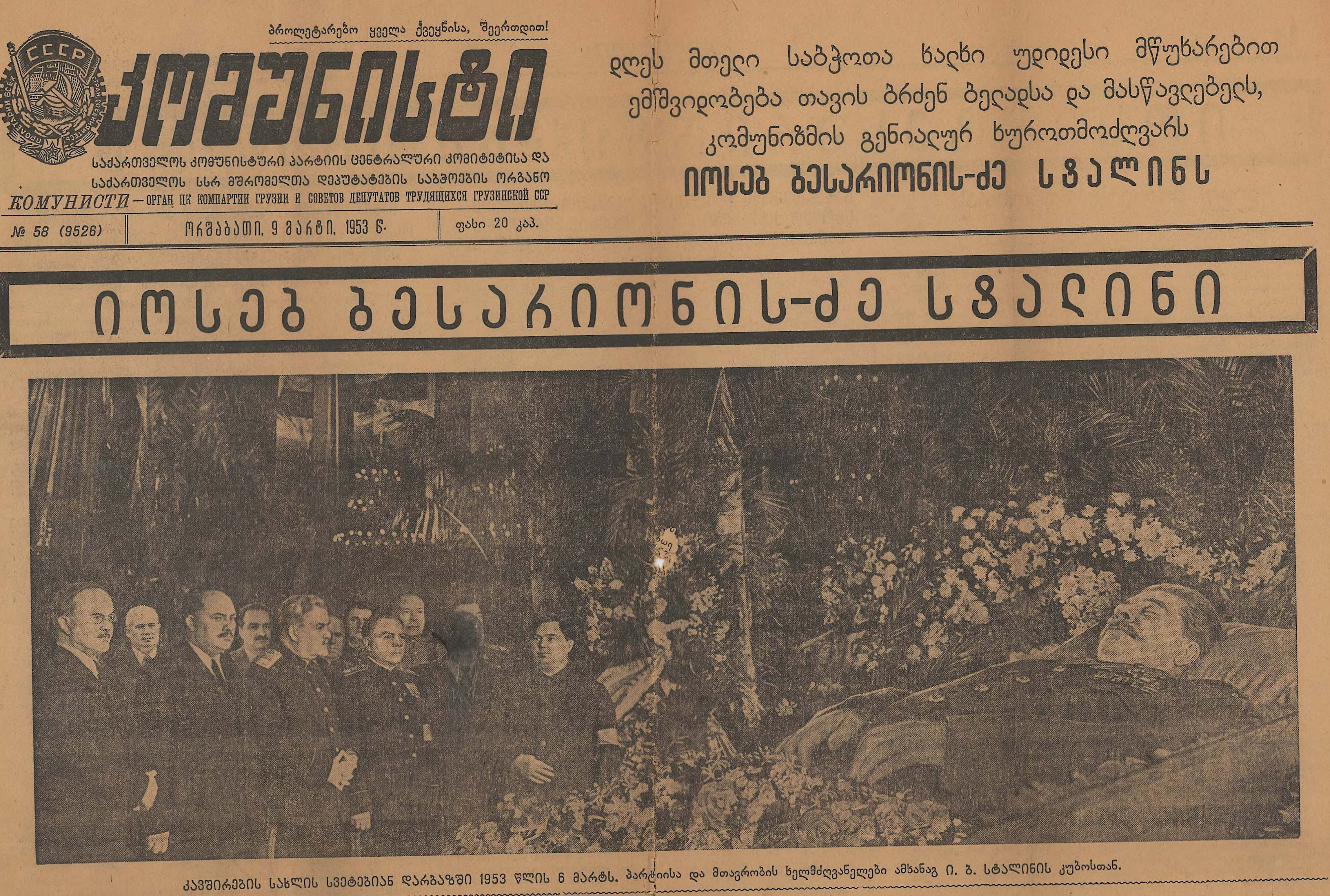 The front page of the Komunist'i Newspaper from the Georgian SSR, featuring a picture of the death of Stalin.